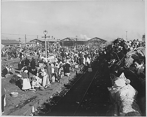 General notes: Use War and Conflict Number 1476 when ordering a reproduction or requesting information about this image.